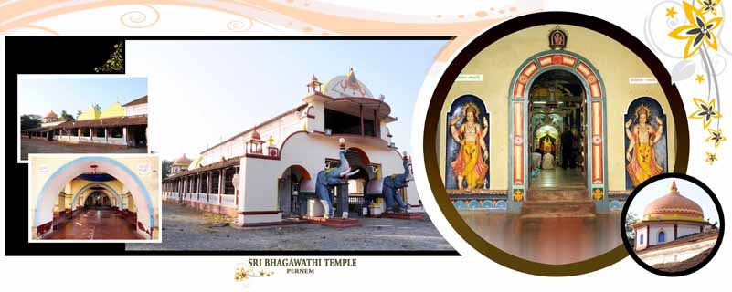 Collage of Photographs of a Goan Temple: Bhagavathi Temple, Pernem, Goa